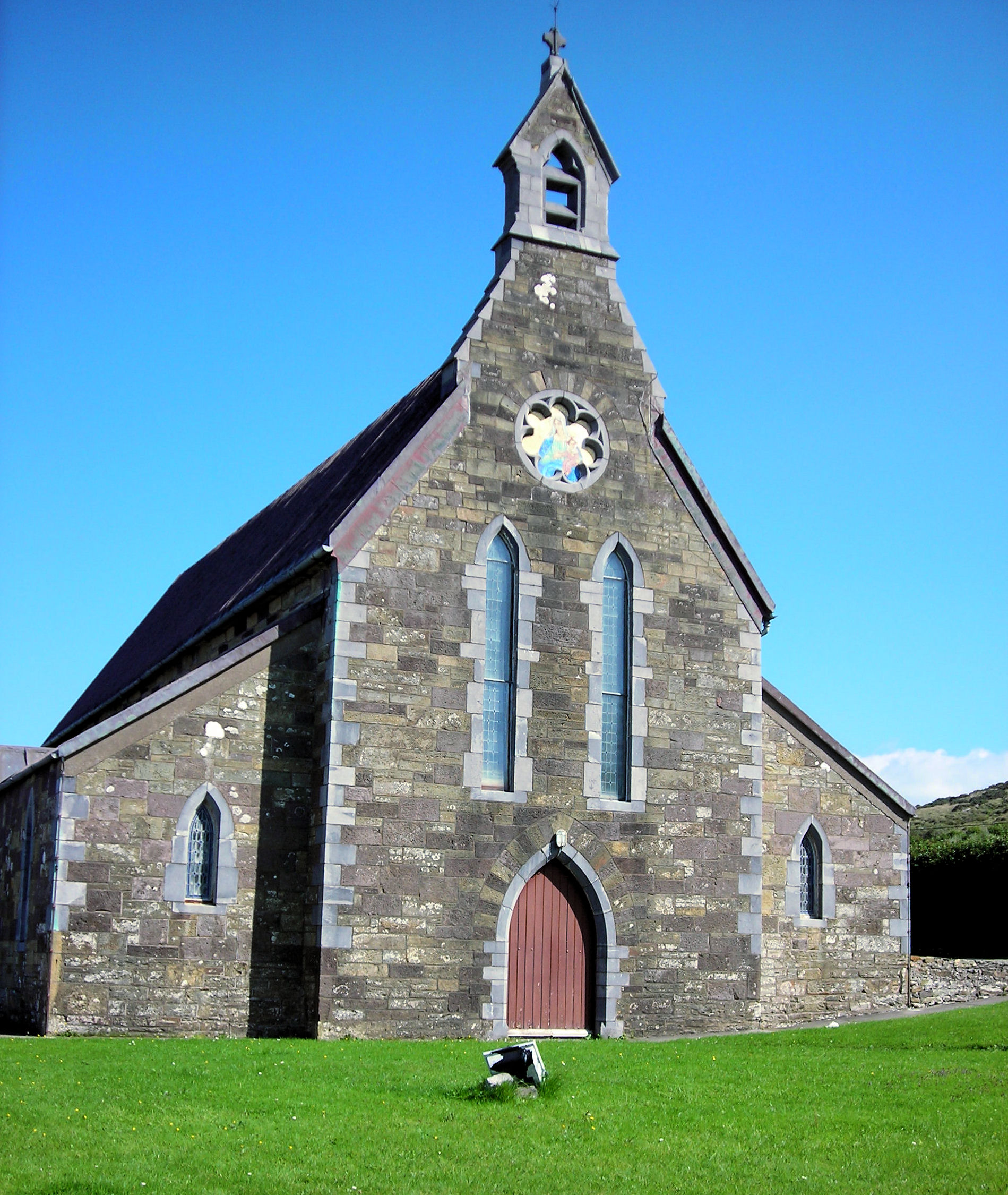 The St. Vincent's Catholic Church, Ballyferriter, Dingle Peninsula, Kerry, Ireland.